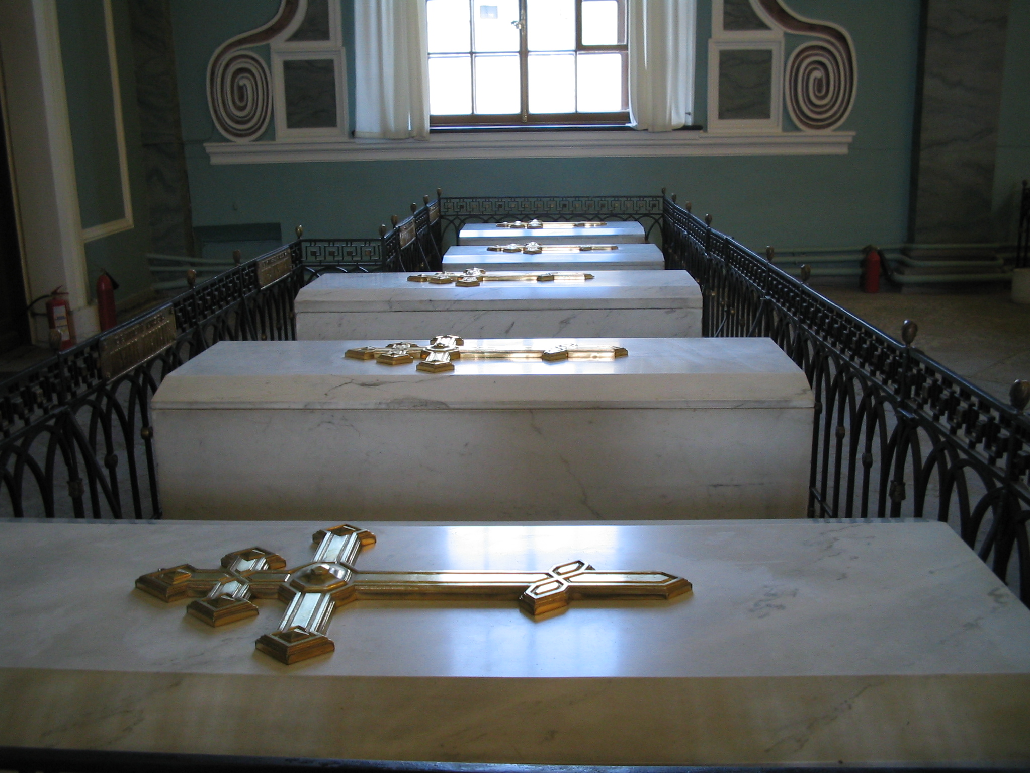 View of the graves inside St Petersburg's Peter and Paul's Cathedral